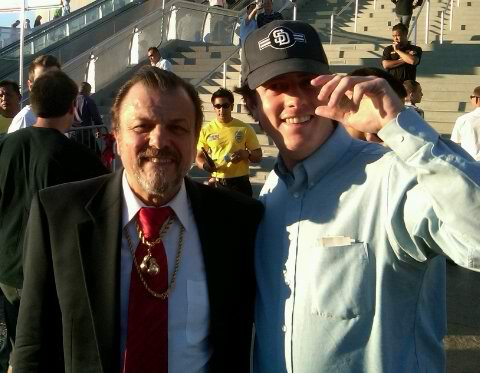 Sampson Lewkowicz with fan, outside the Thomas and Mack Center, September 15, 2012. This photo was taken prior to the Sergio Martinez vs. Julio Cesar Chavez, Jr. fight